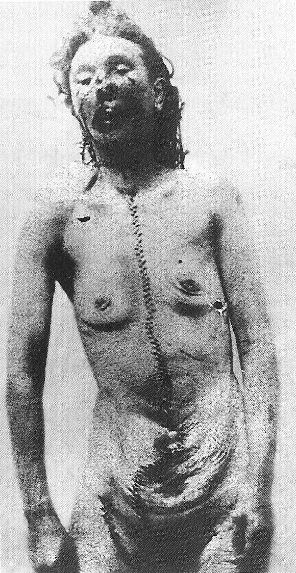 Photograph of the corpse of Catherine Eddowes taken in 1888.